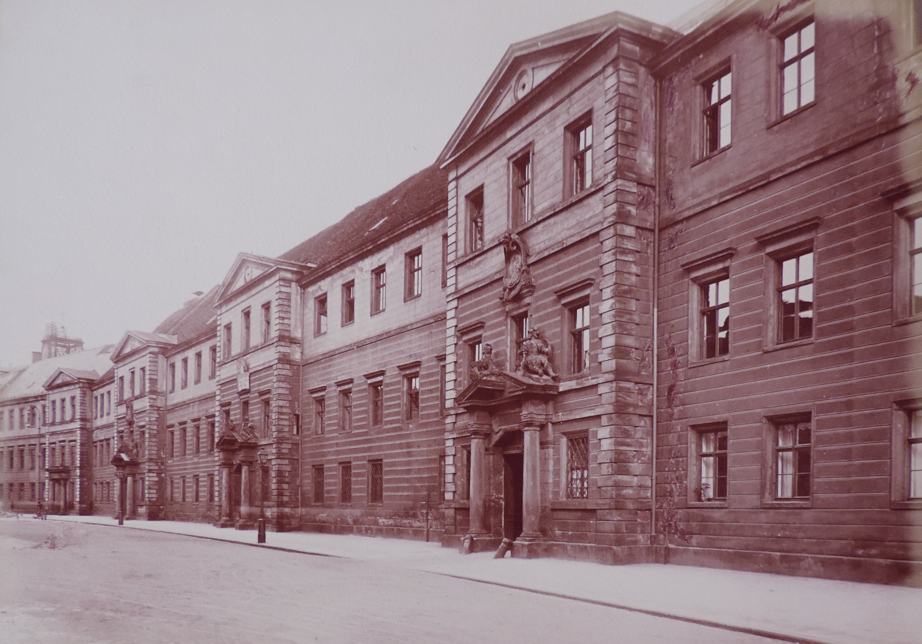 Views and photos of Bayreuth, Germany, gifted to Ferdinand I of Bulgaria to commemorate his 25-year rule. Administrative building (old part) from 1904.